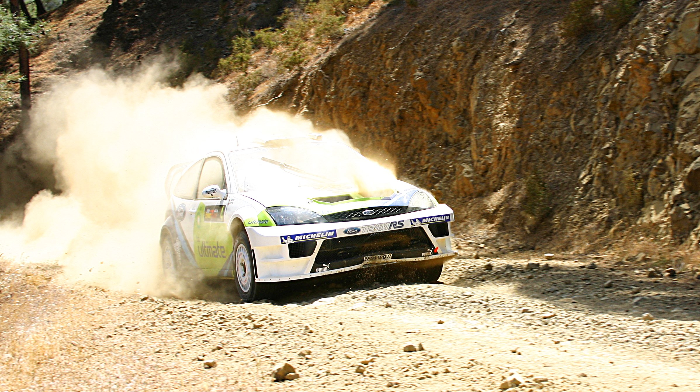 Roman Kresta driving his Ford Focus RS WRC 05 at the 2005 Cyprus Rally.